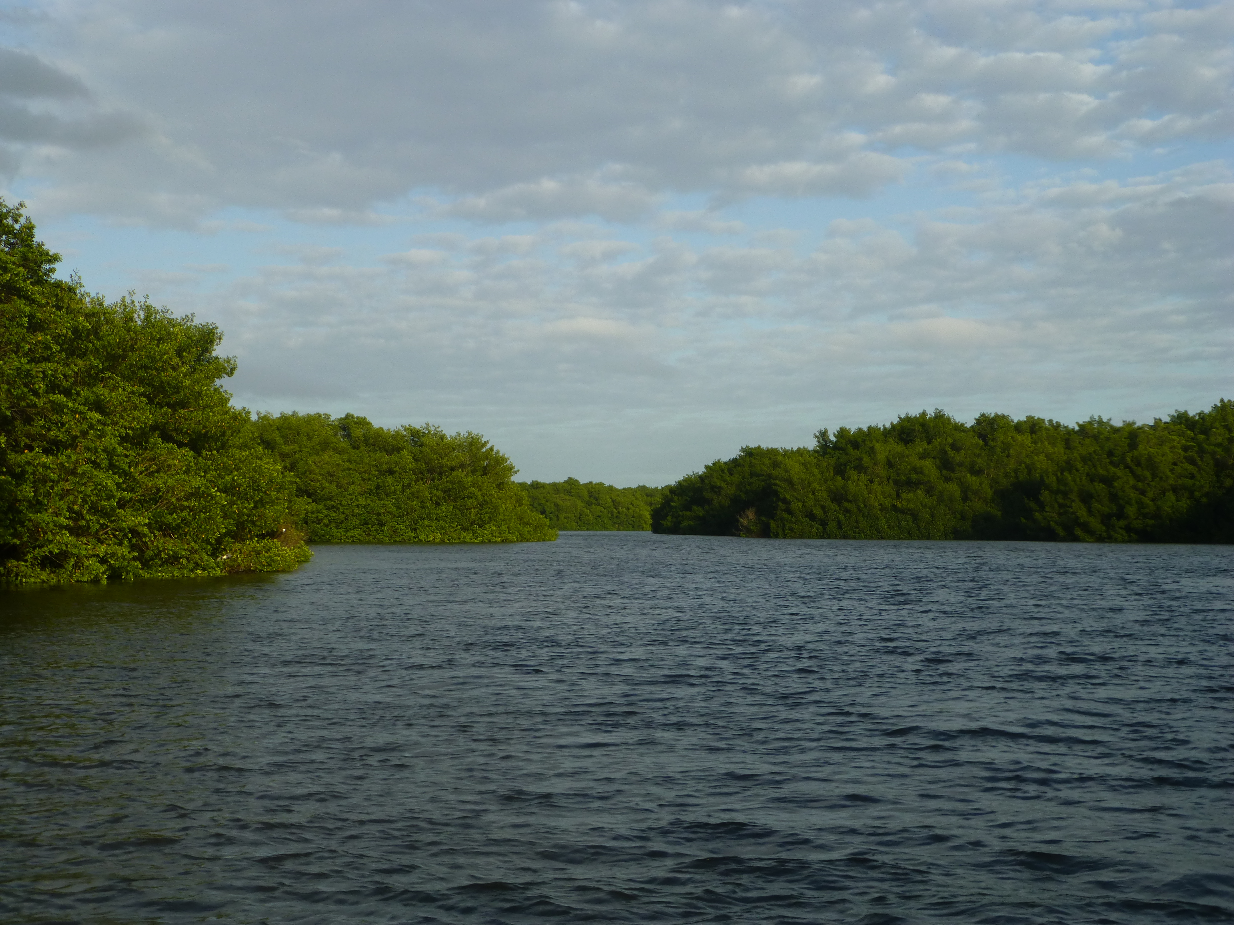 Caroni Swamp, Trinidad.